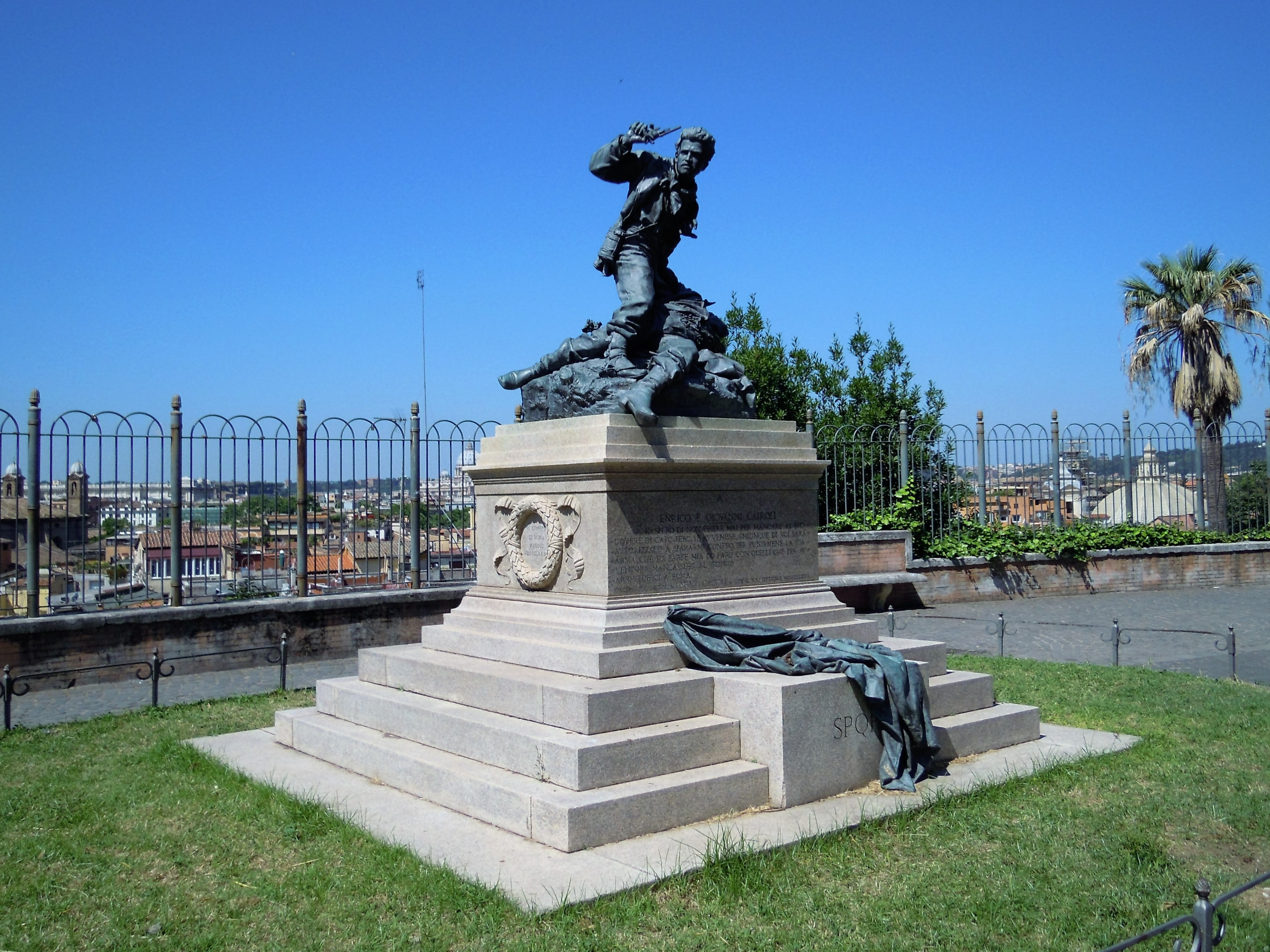 Rome, monument to Cairoli brothers of Ercole Rosa (1883)